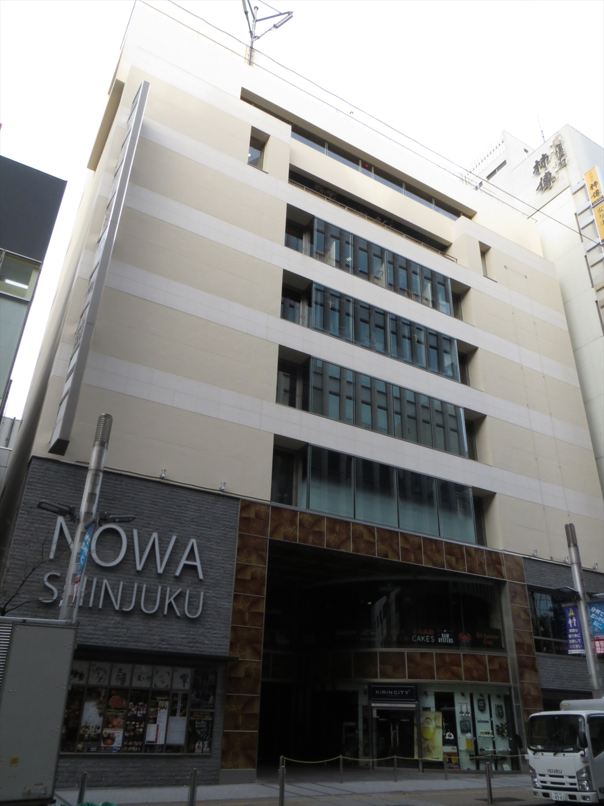 Shinjuku NOWA Building.